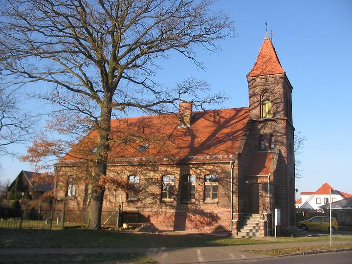 Listed church Fahlhorst, built in 1882. The village Fahlhorst is a part of the municipality Nuthetal in the district Potsdam-Mittelmark, state Brandenburg, Germany.